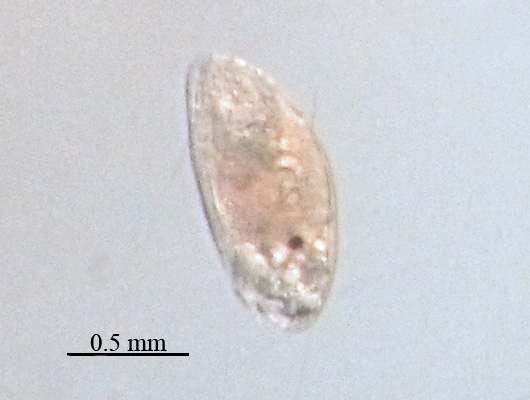 Larva (cyprid) of bay barnacle; hydrofront of Dnieper-Bug Liman